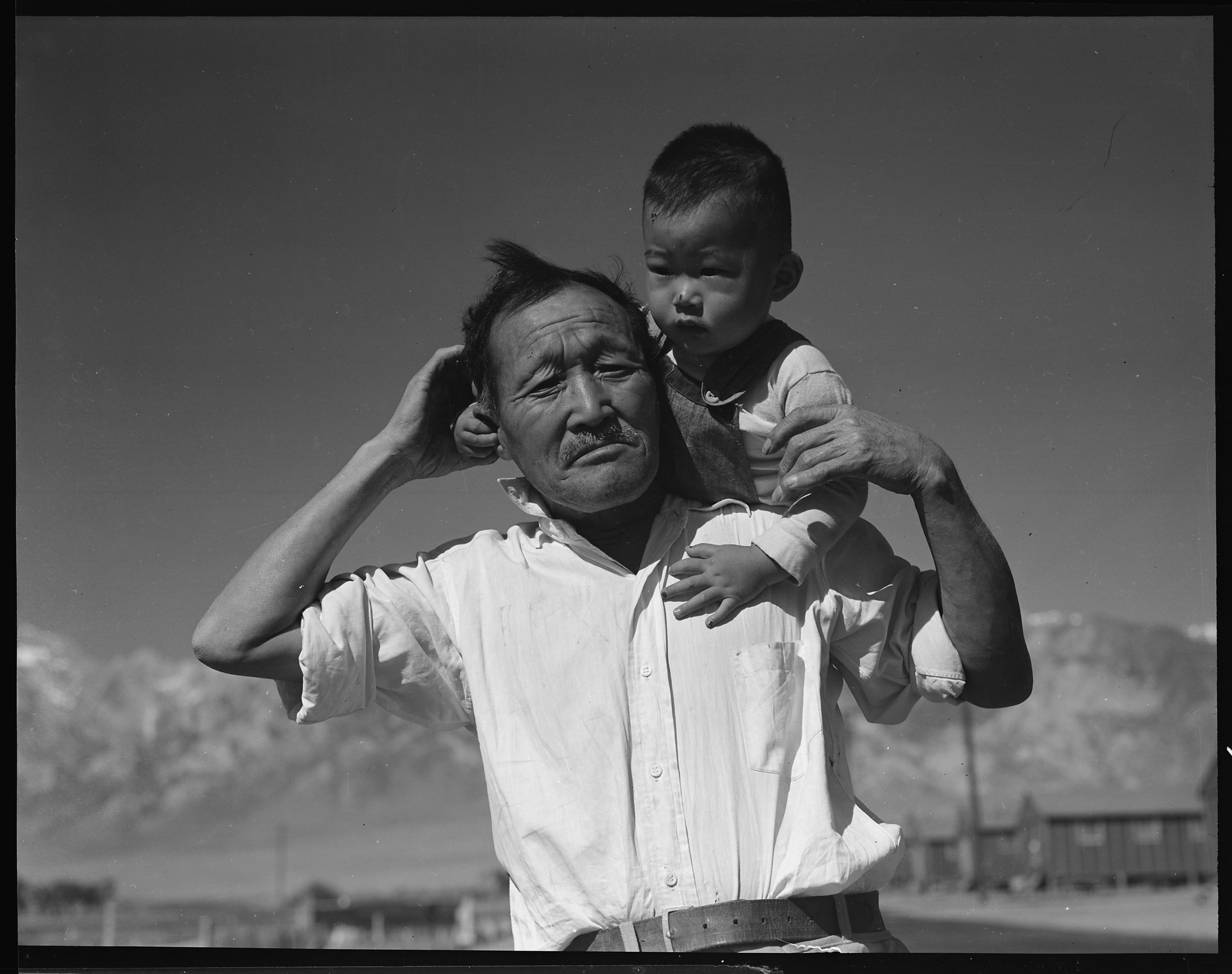 Scope and content: The full caption for this photograph reads: Manzanar Relocation Center, Manzanar, California. Grandfather and grandson of Japanese ancestry at this War Relocation Authority center.